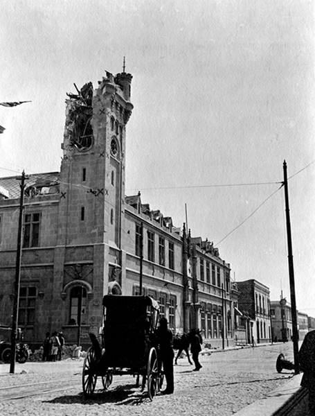 Antigua 6ta estación de policía durante la decena trágica en el centro histórico de la Ciudad de México